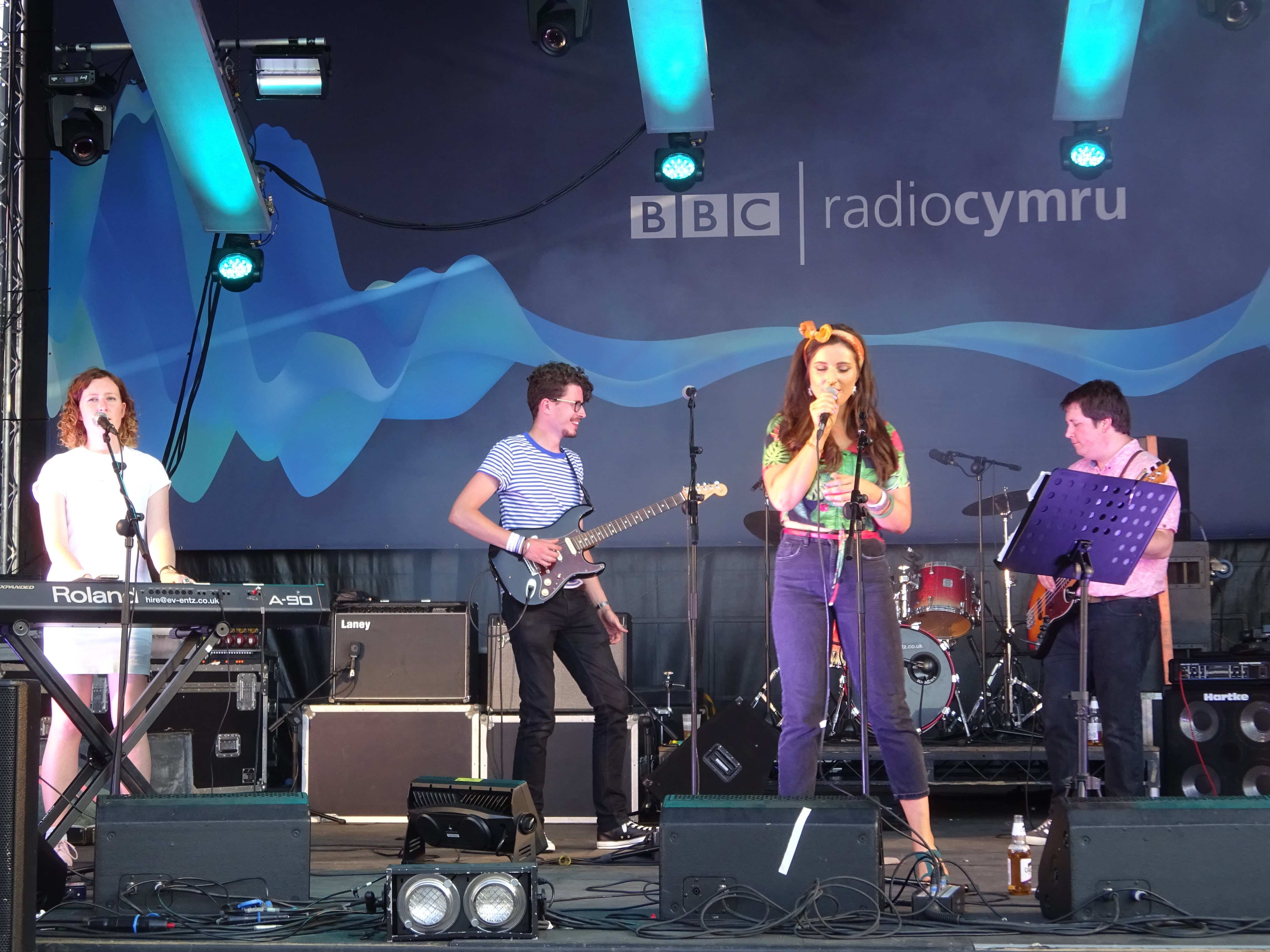 Alys Williams at Eisteddfod Caerdydd, 2019.